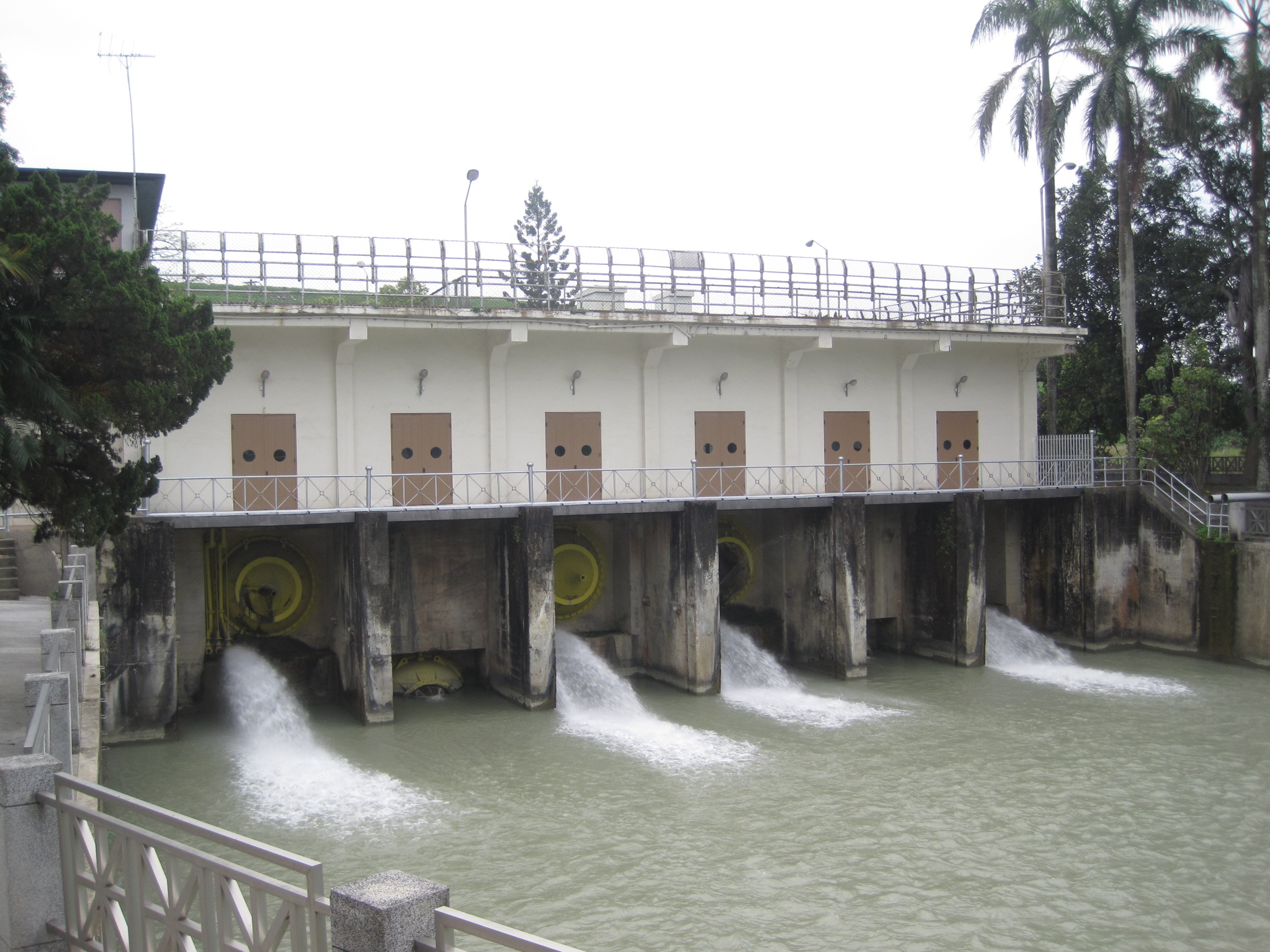 Wushantou Dam